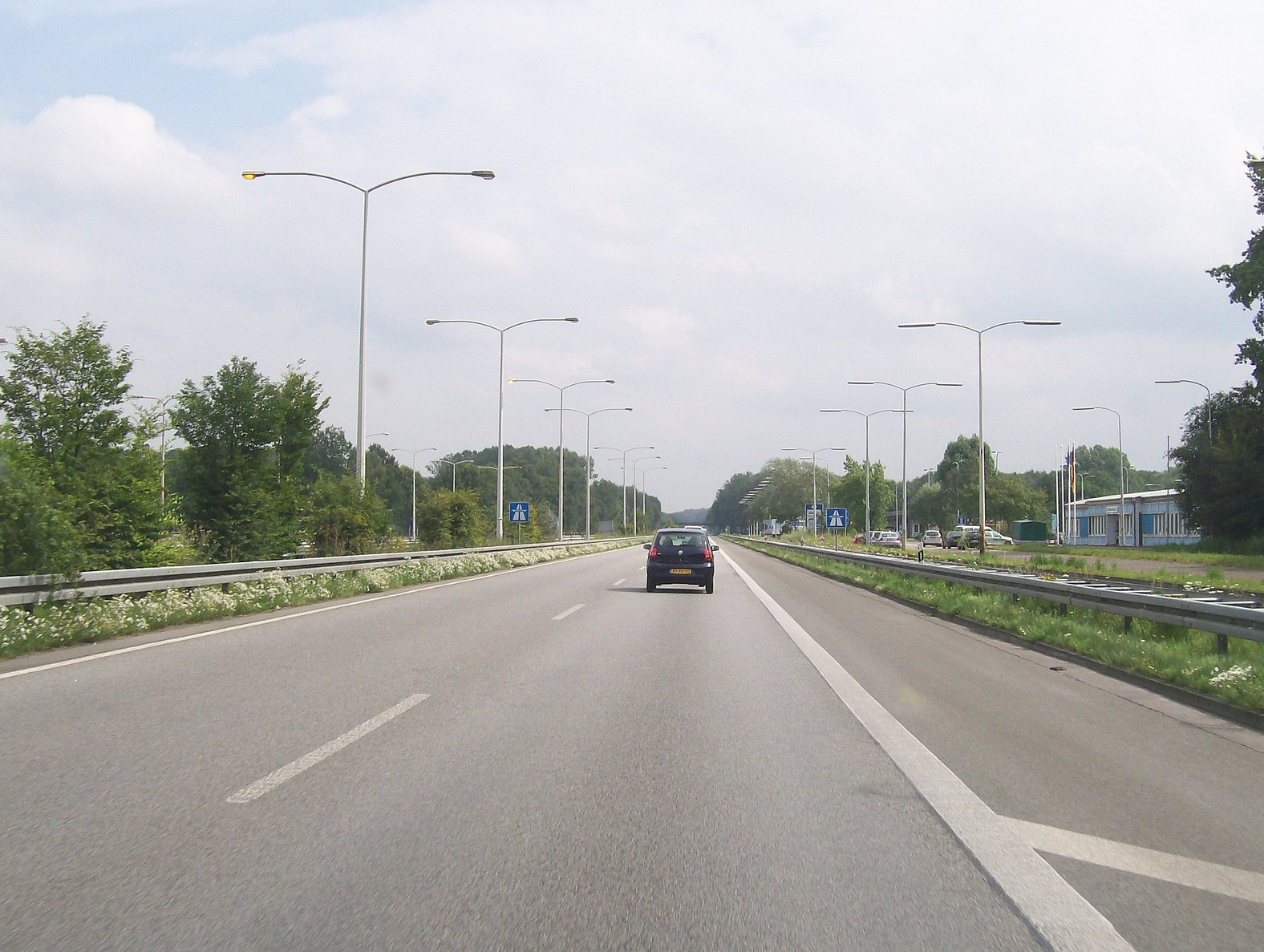 border crossing between The Netherlands and Germany "Bergh autoweg"